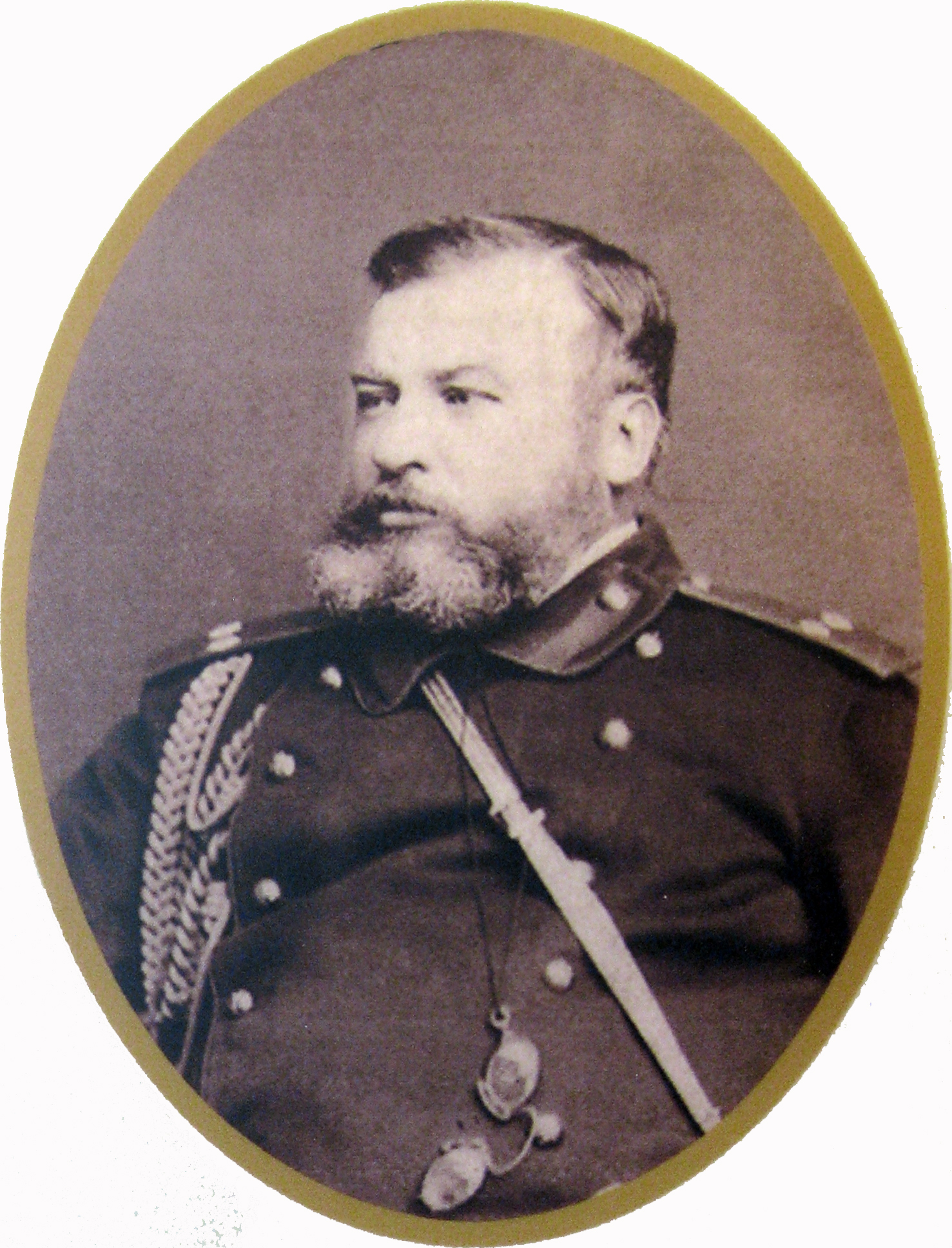 Kasimir Ernrot (1833–1913); General, Minister of War, Prime Minister of Bulgaria.